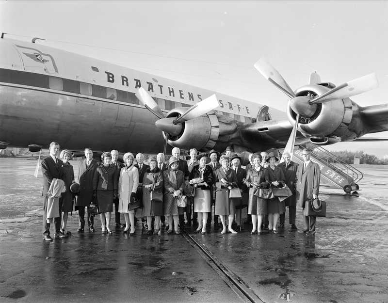 Braathens SAFE Douglas DC-6 at Oslo Airport, Fornebu before departure on a charter trip to Odense